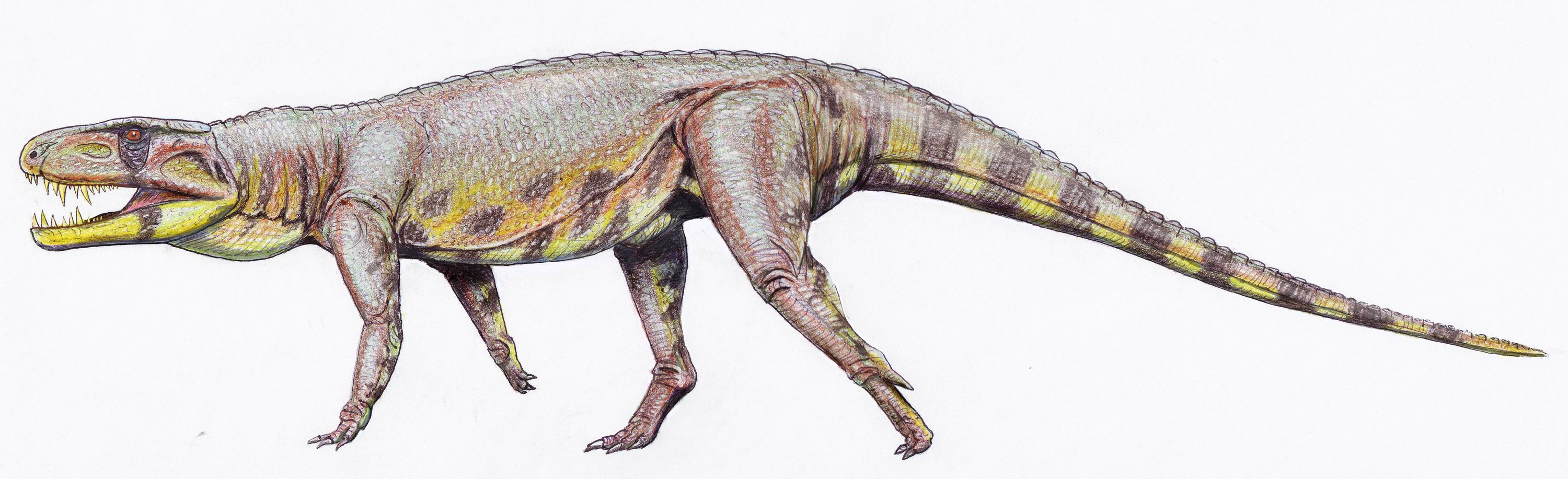 Polonosuchus silesiacus - rauisuchian from Carnian of Poland.